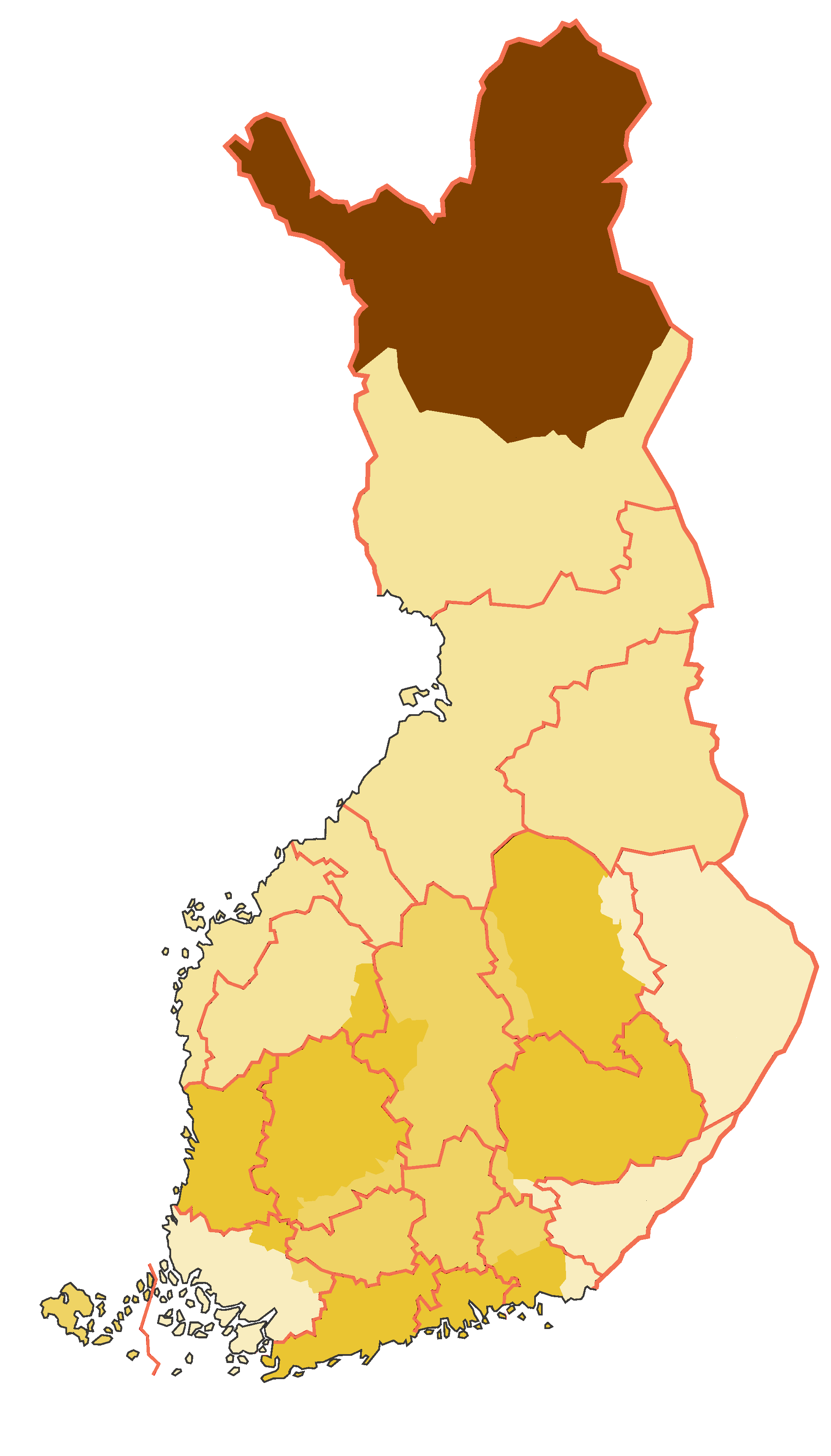 Historical province of Laponia in Finland